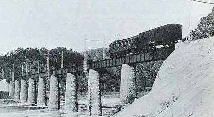 A train on the Hantangang Bridge of the Kumgangsan Electric Railway, during the Japanese rule of Korea.